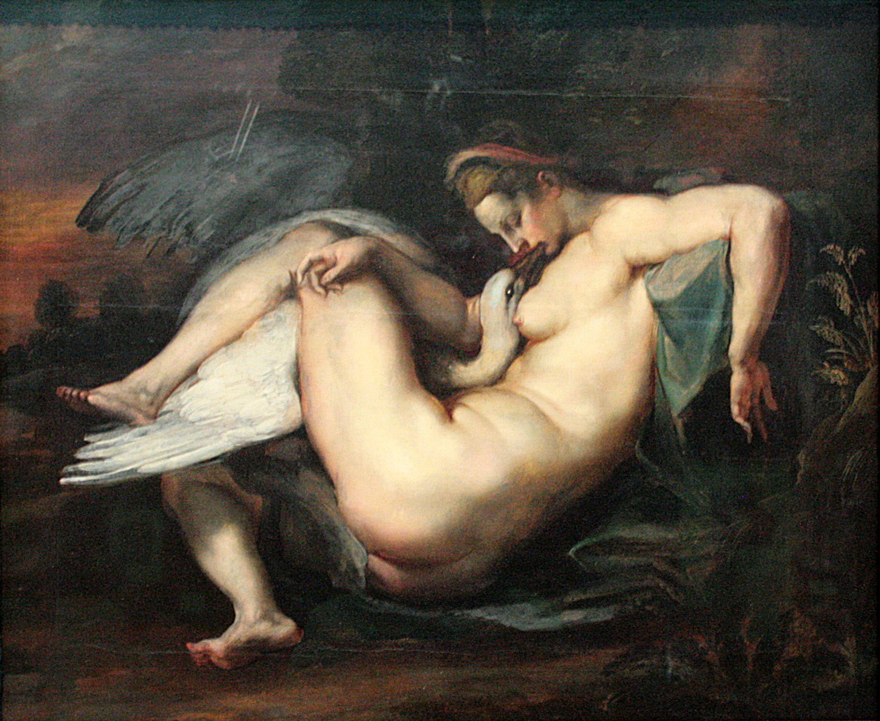 Work of the Stephen Mazoh deposit collection at the museumMuseum of Fine Arts, Houston photographed during the exhibition « Rubens et son Temps » (Rubens and His Times) at the Museum of Louvre-Lens.